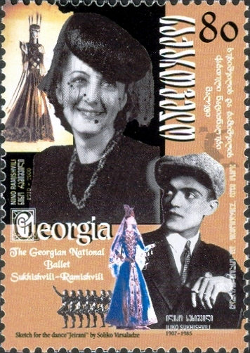 Stamp of Georgia "The Georgian national ballet", N. Ramishvili and I. Sukhishvili, 2002